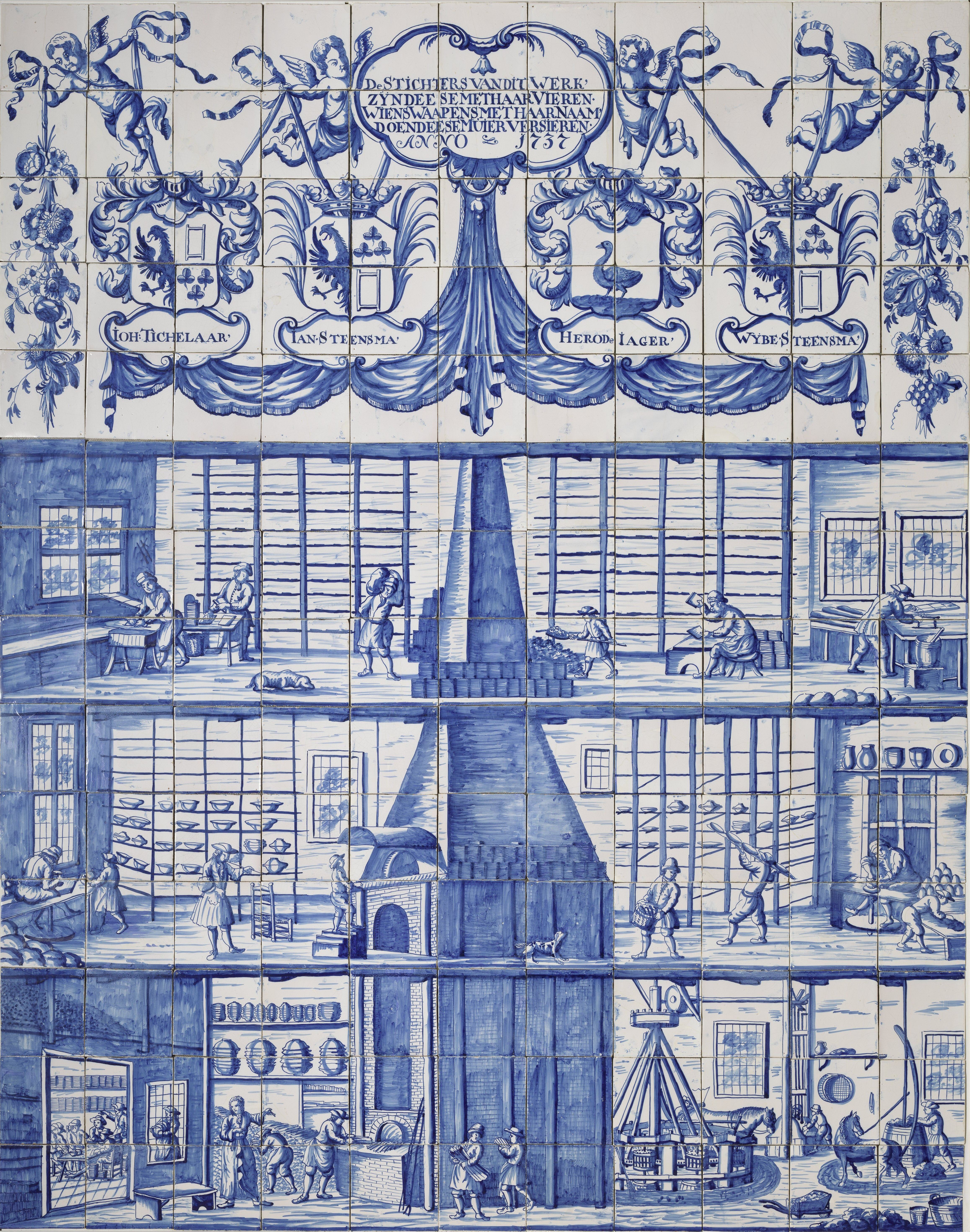 Majolica tile panel from Bolsward